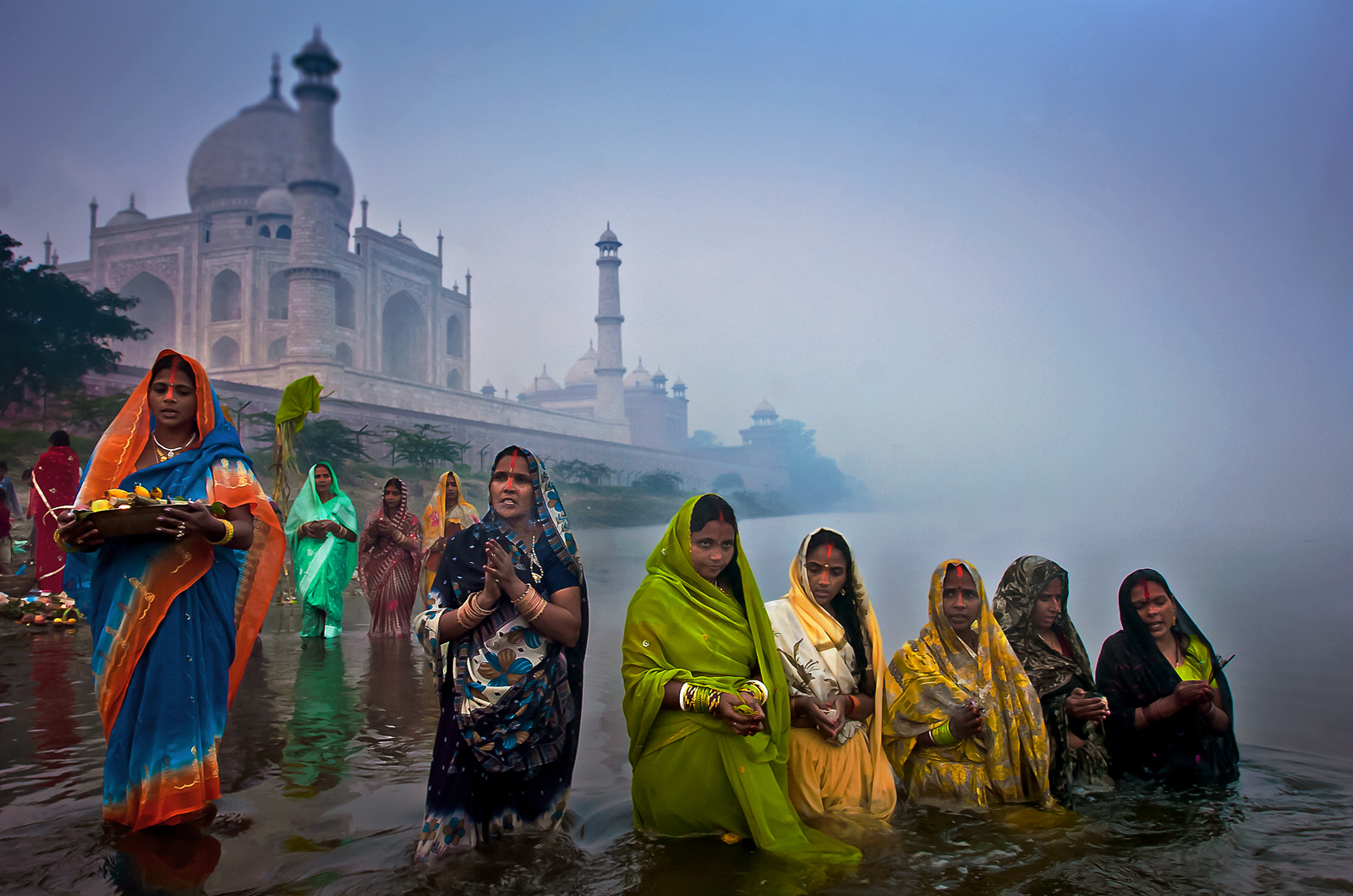 Devotees offer prayer to the Sun God at the river Yamuna beside Taj Mahal. Taj, the 17th century white marble monument of love, attracts around 20,000 visitors every day has been voted one of the new Seven Wonders of the World.